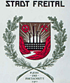 First coat of arms of Freital 1921—1938